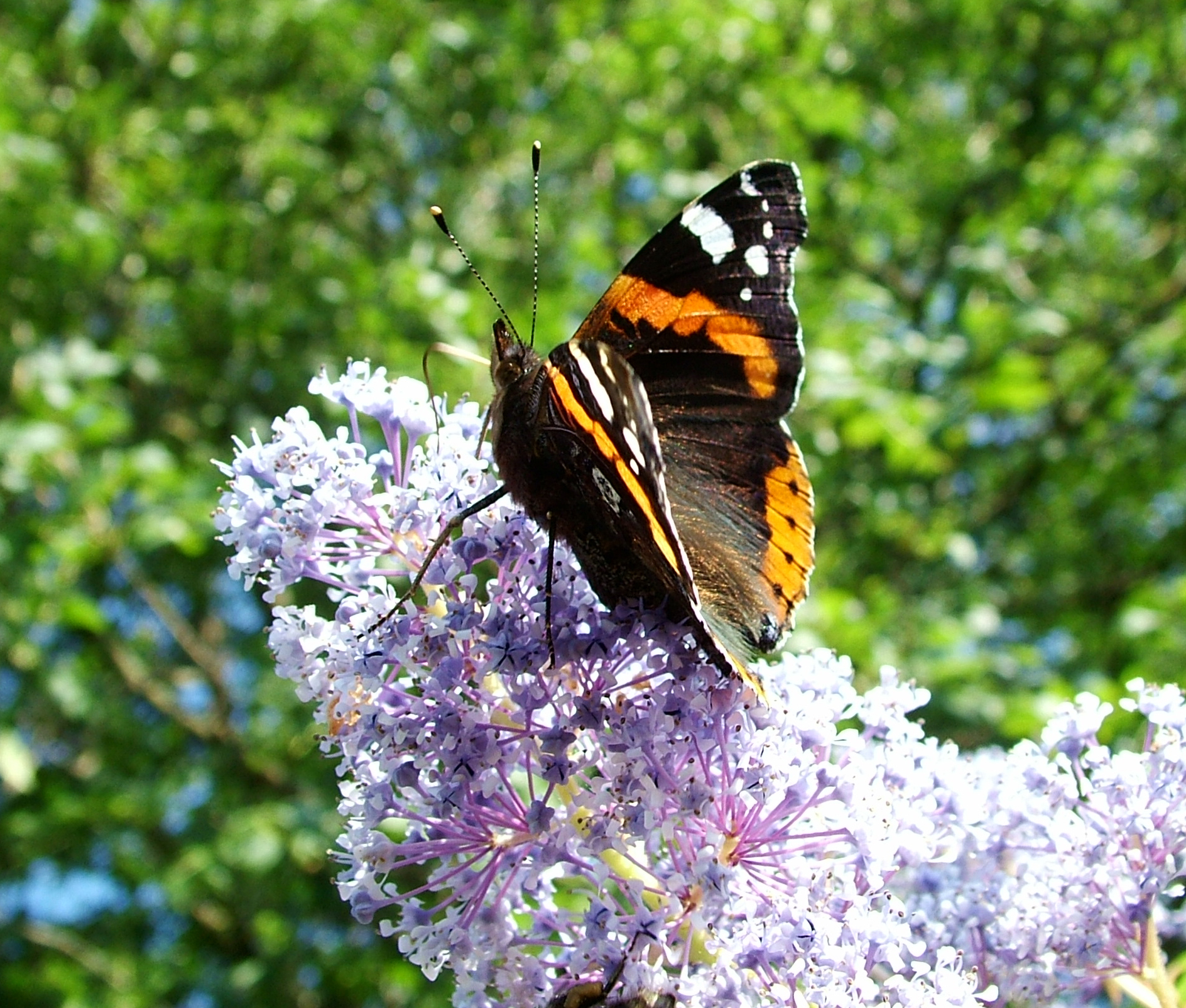 Red Admiral